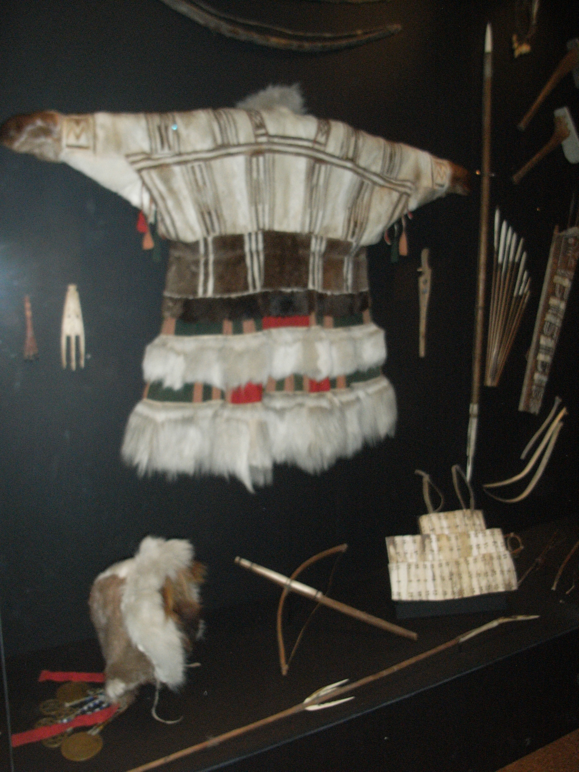 Adolf Erik Nordenskiöld collection, Etnografiska museet Stockholm